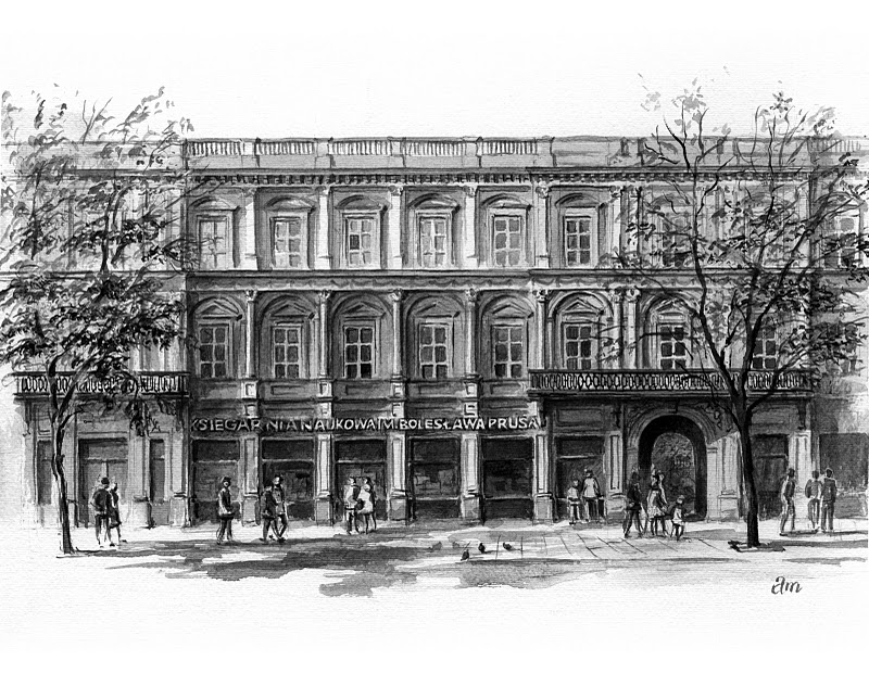 The Boleslaw Prus Central Academic Bookshop in the 70s.